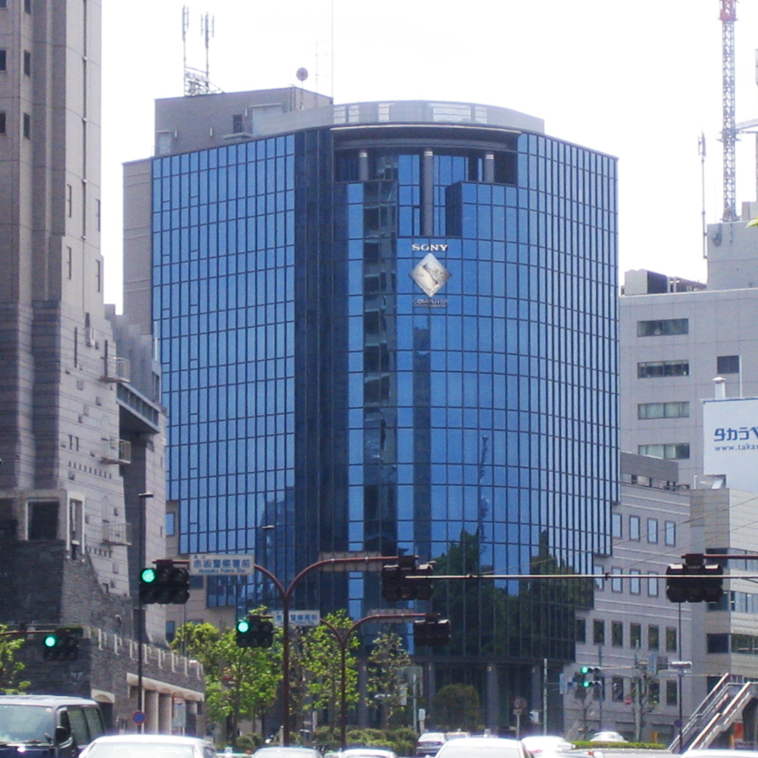 Aoyama Yasuda Bldg. (青山安田ビル), located at Akasaka, Minato, Tokyo, Japan. Sony Computer Entertainment Inc. (ソニー・コンピュータエンタテインメント) is in this building.